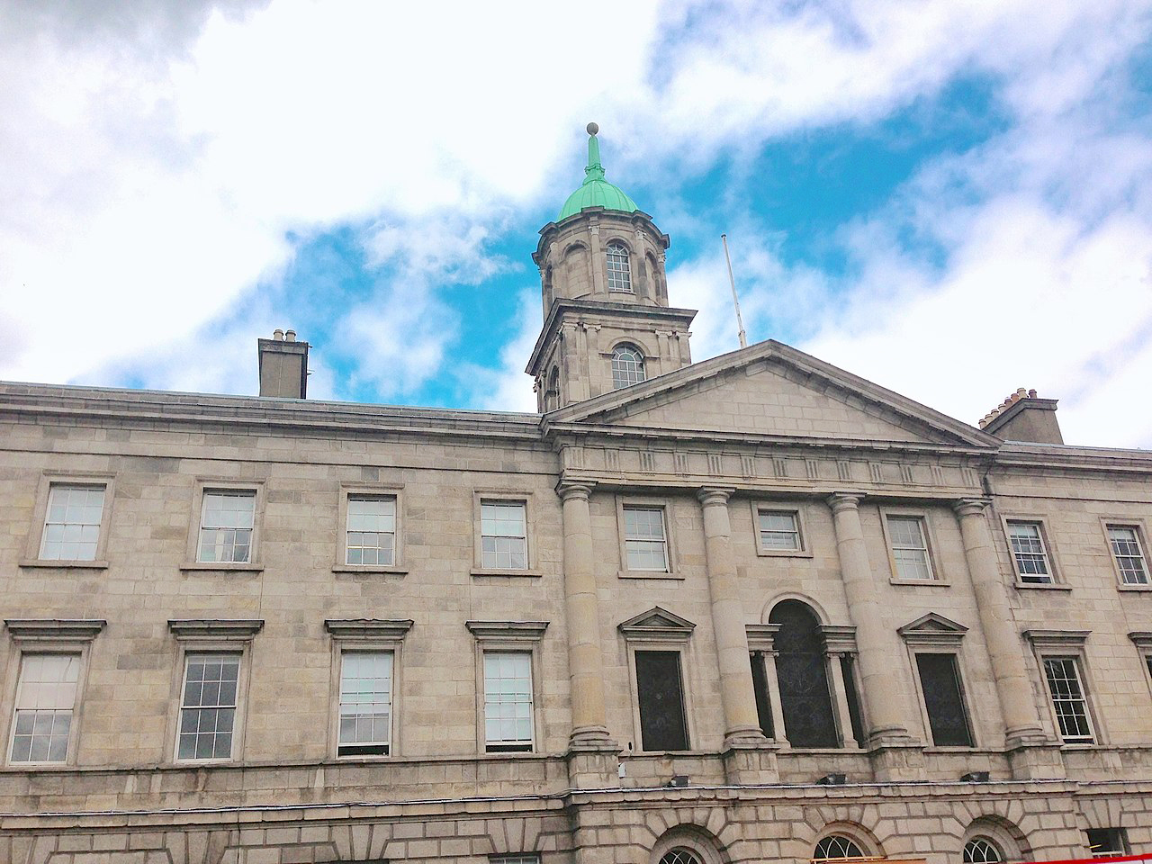 The Rotunda Hospital, Dublin, Ireland